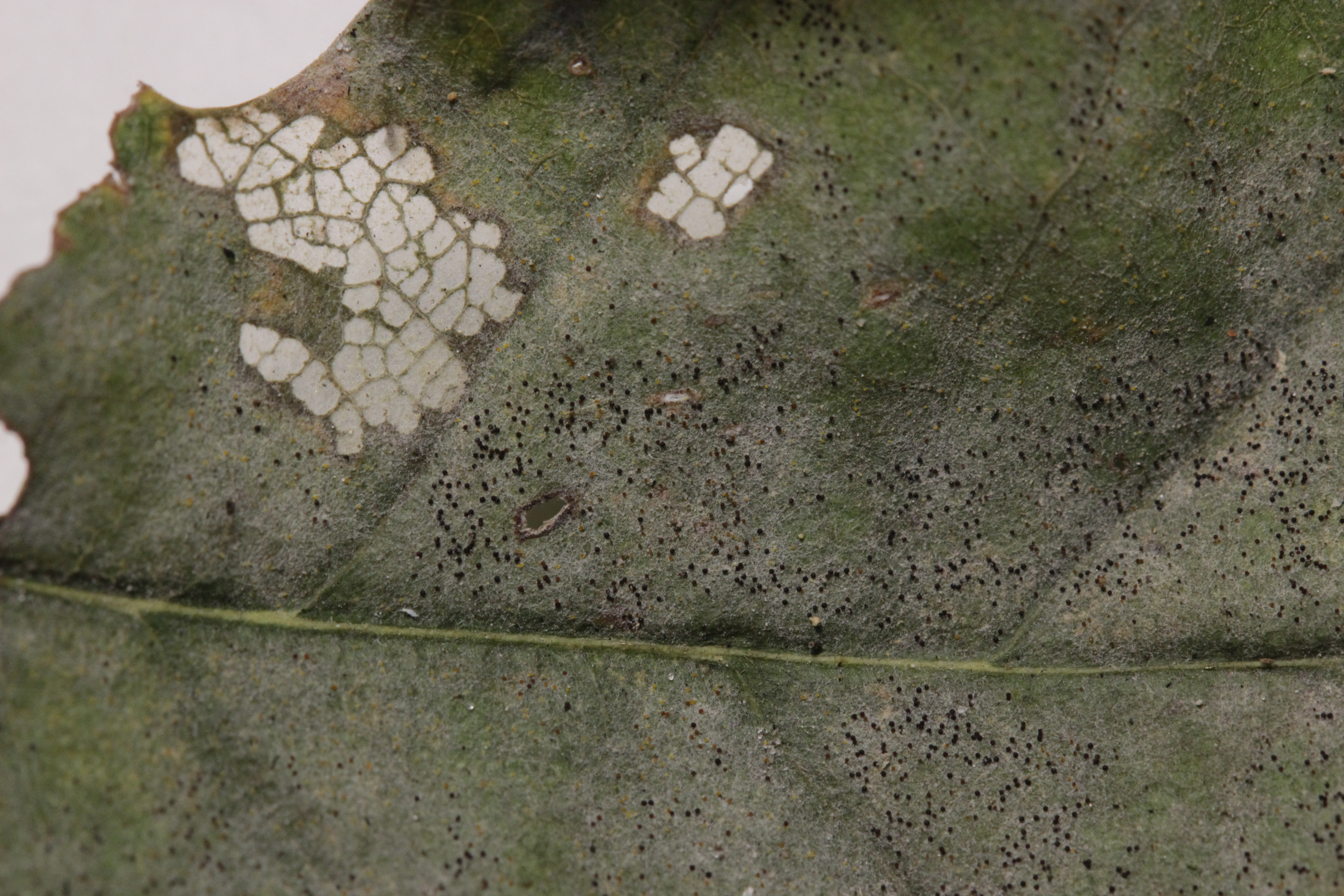 Erysiphe alphitoides on Quercus sp.